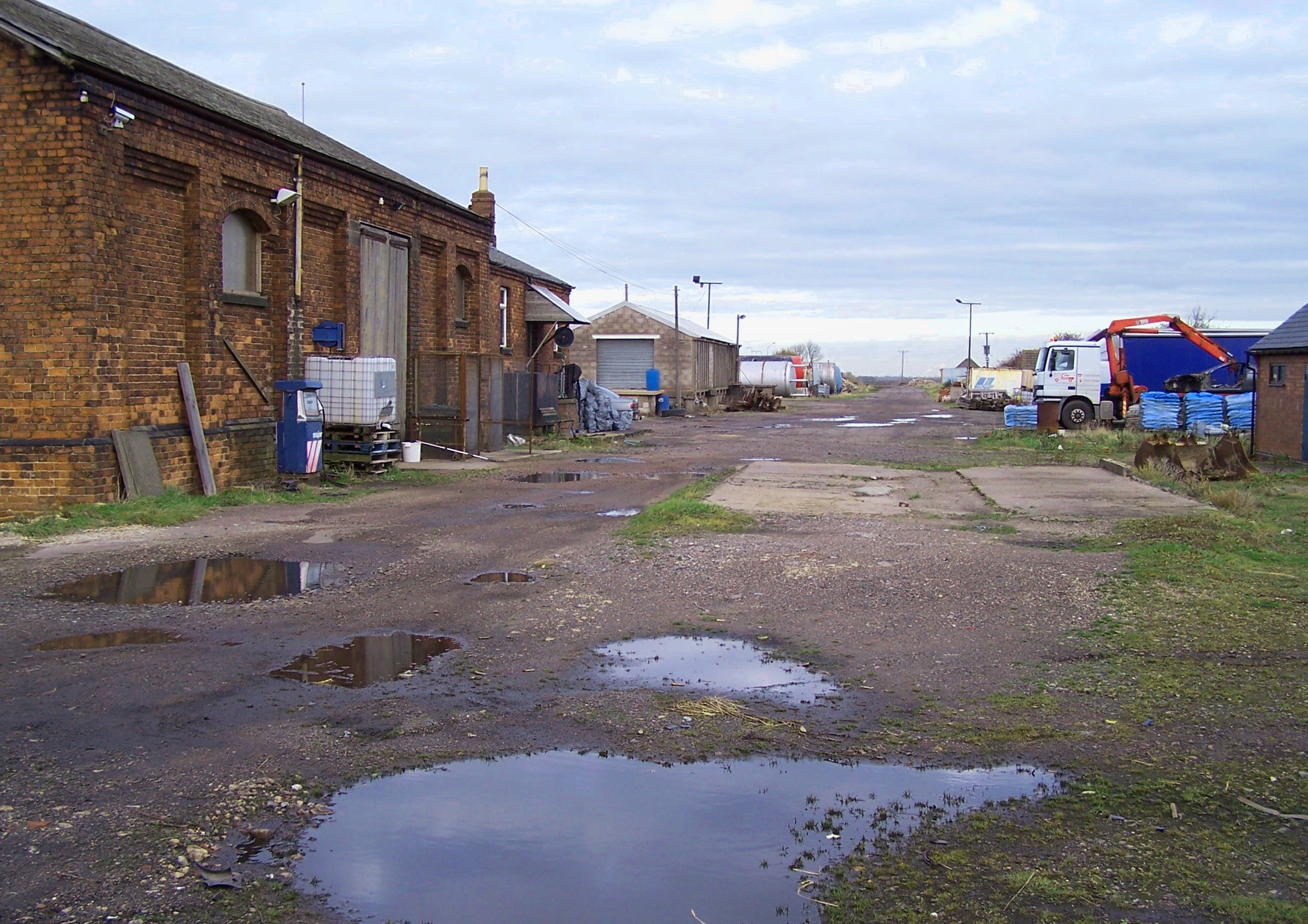 View of area that once was the Harby and Stathern railway station.